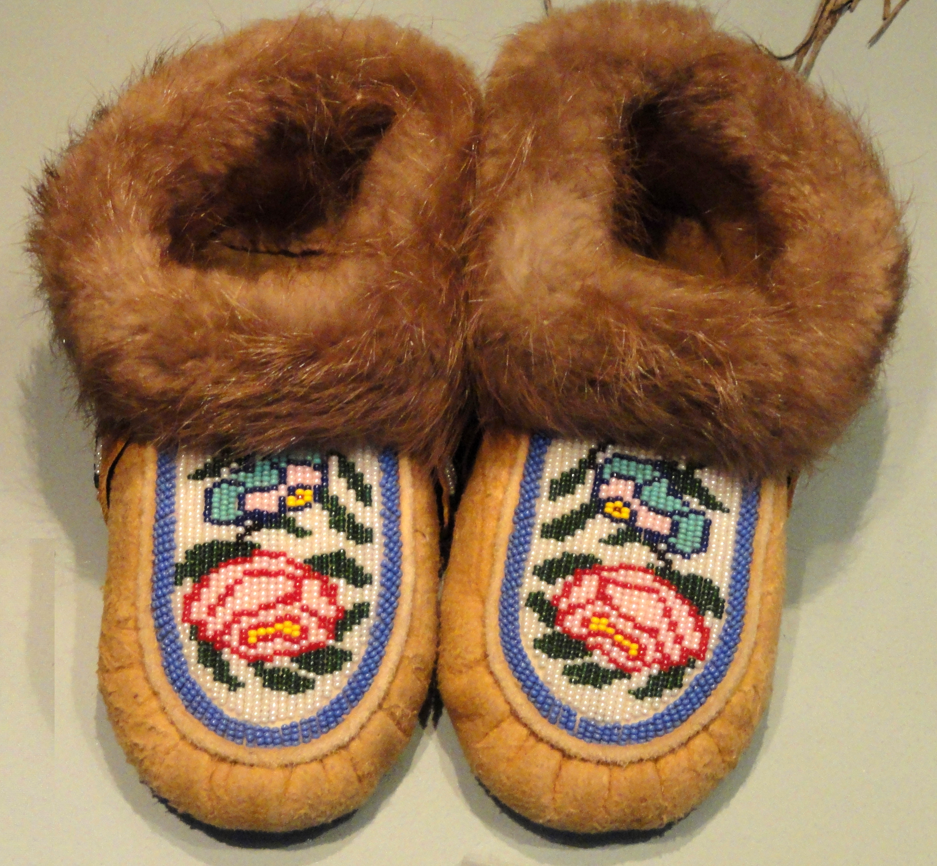 Exhibit from the North American collection of the Staatliches Museum für Völkerkunde München, Maximilianstraße 42, Munich, Germany. Moccasins, elk hide and beaver fur, West Canada, 1975.